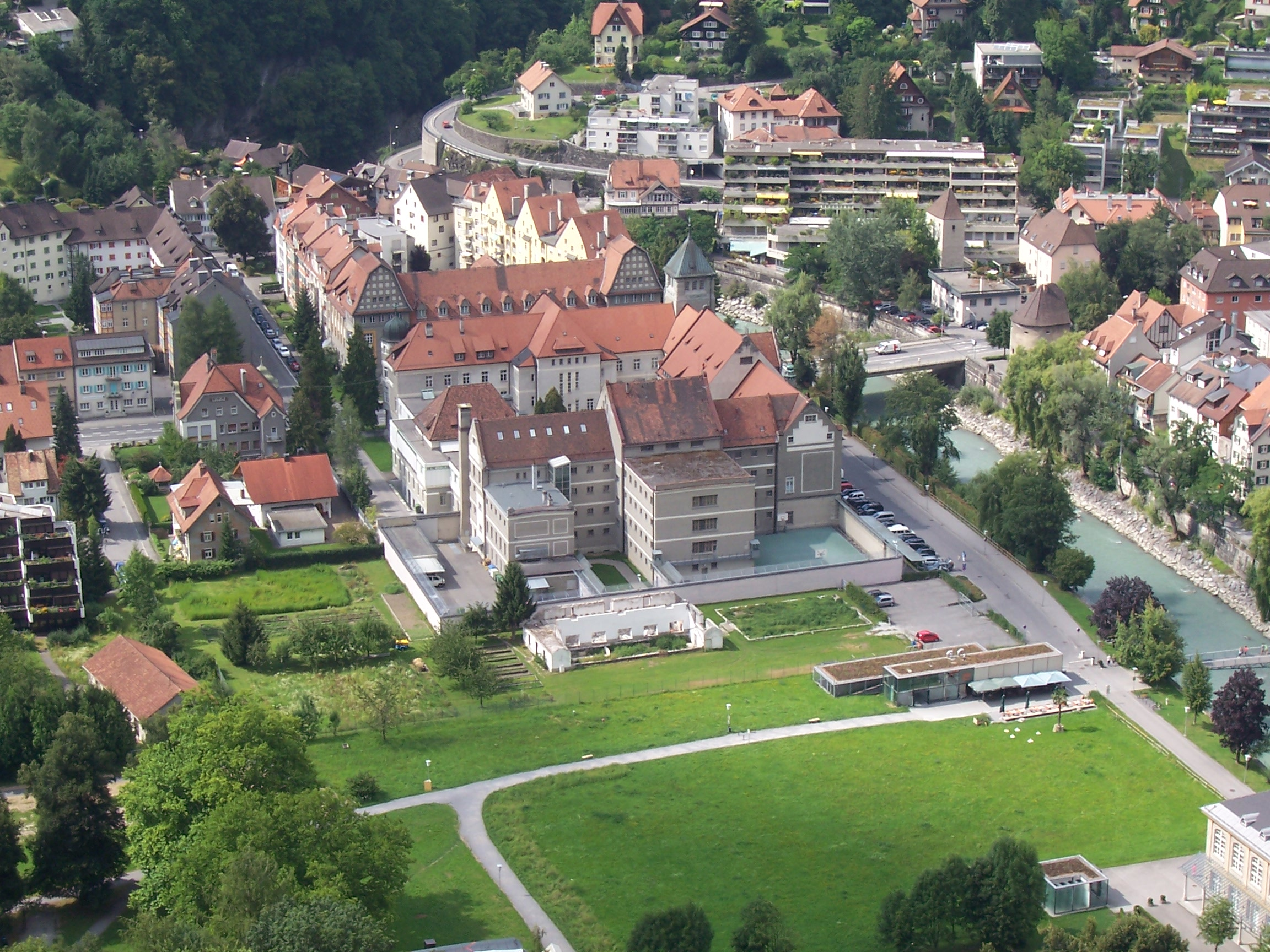 The penitentiary Feldkirch.